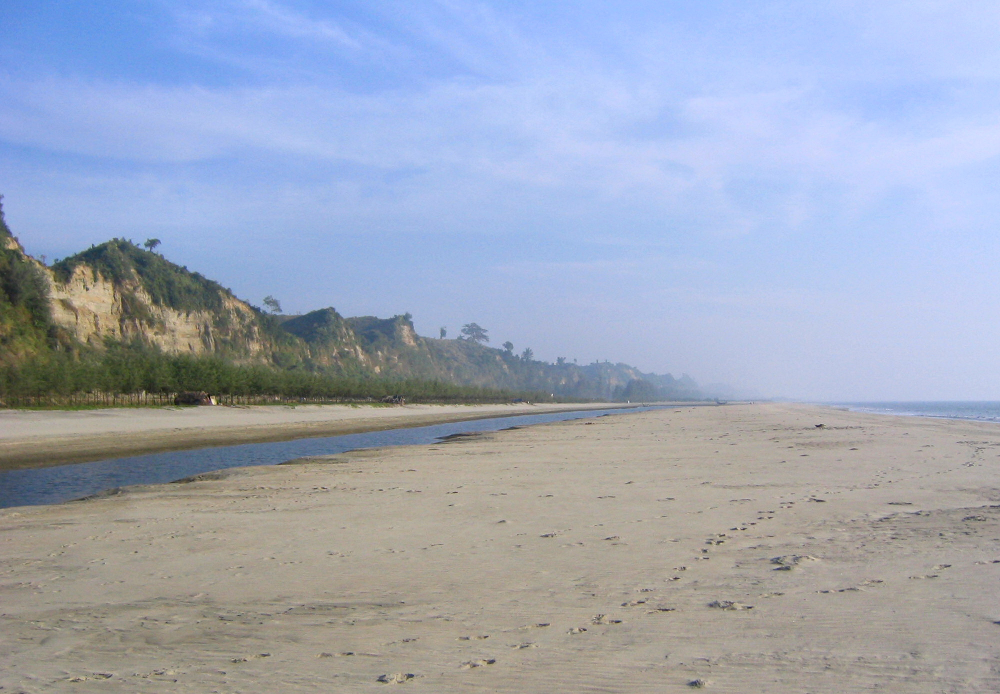 Date: 2nd January 2004 10:41 1 ISO: unknown Photograph: ed g2s • talk